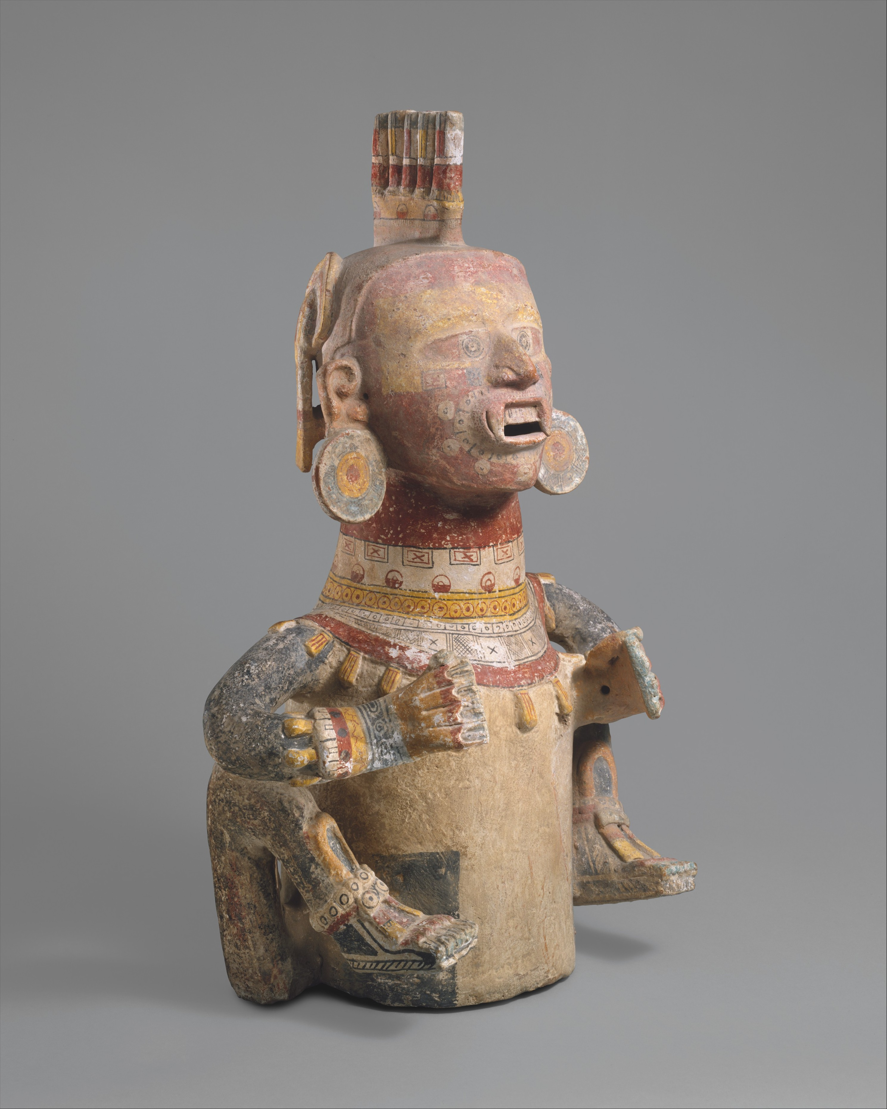 Deity censer (xantil) of the Eastern Nahua of Puebla, Mexico